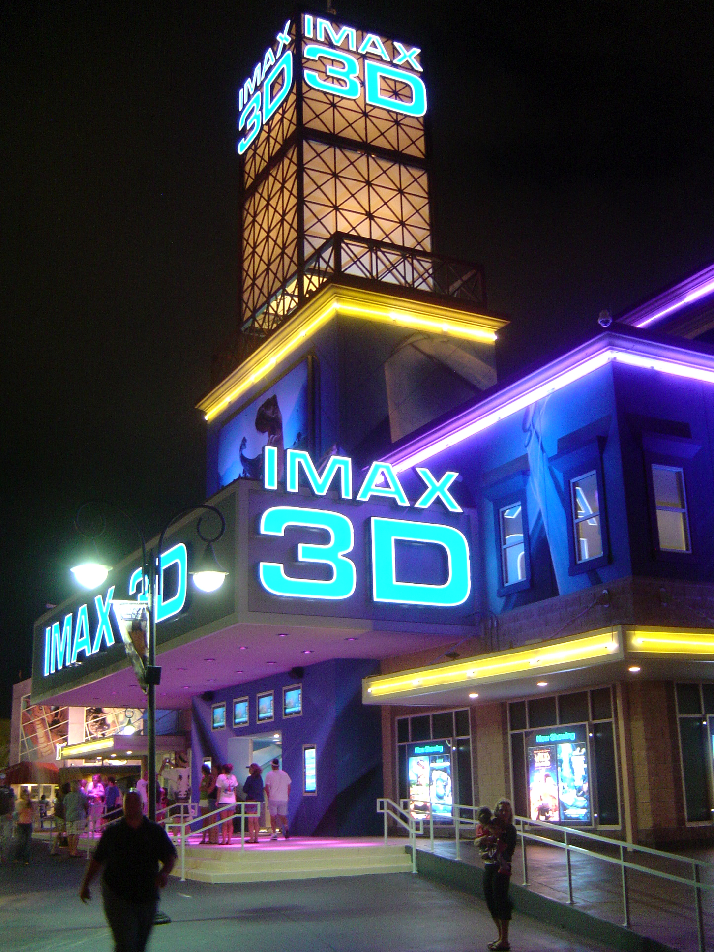 This is the IMAX 3D at "Broadway at the Beach." Apparently the day that I was there was their first day open - which I thought was really odd since it was a Tuesday - and other than going up to the ticket window and buying a ticket, there was absolutely no advertisement or signs saying that this was opening day. Ticket price is normally $10.00 per show - but on this day it was a mere $3.00! Back when we thought that it was $10.00, we found a coupon that brought the price down to $8.50. Kevin and I were the only ones from my group that wanted to go at that price, so we went to see the 9:00 Deep Sea 3D showing. We were obviously both quite surprised when we found out that tickets only cost $3 that day! So when the time came, we went back again (this time with Sarge and Stafford) to see the 10:00 Sharks 3D presentation. Of the two, I'd say that I liked the Deep Sea 3D show better. The camera work was absolutely stunning! Both shows had great camerawork (especially underwater!), but the Deep Sea one had (IMO) better. Myrtle Beach, SC DSC06119